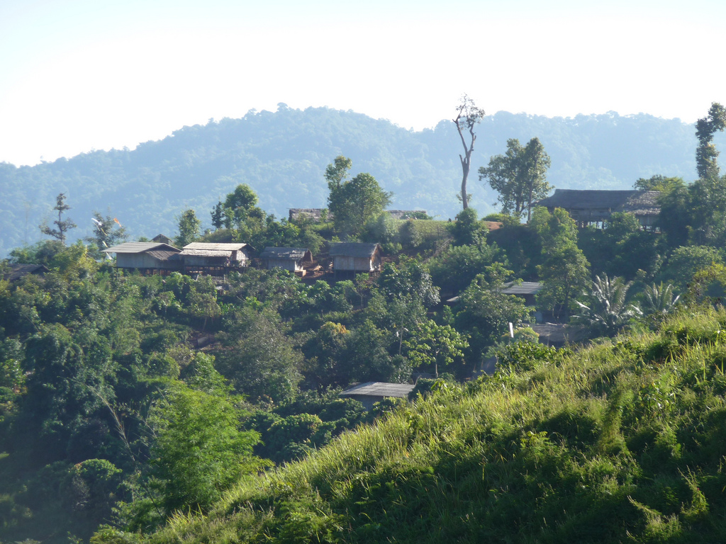 Lahu hilltribe-dorp in Thailand